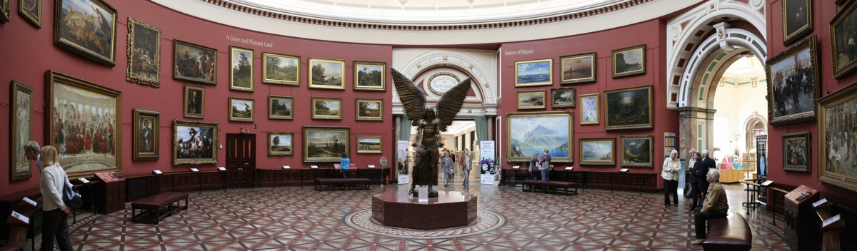 The Round Room at Birmingham Museum & Art Gallery Source - FlickR